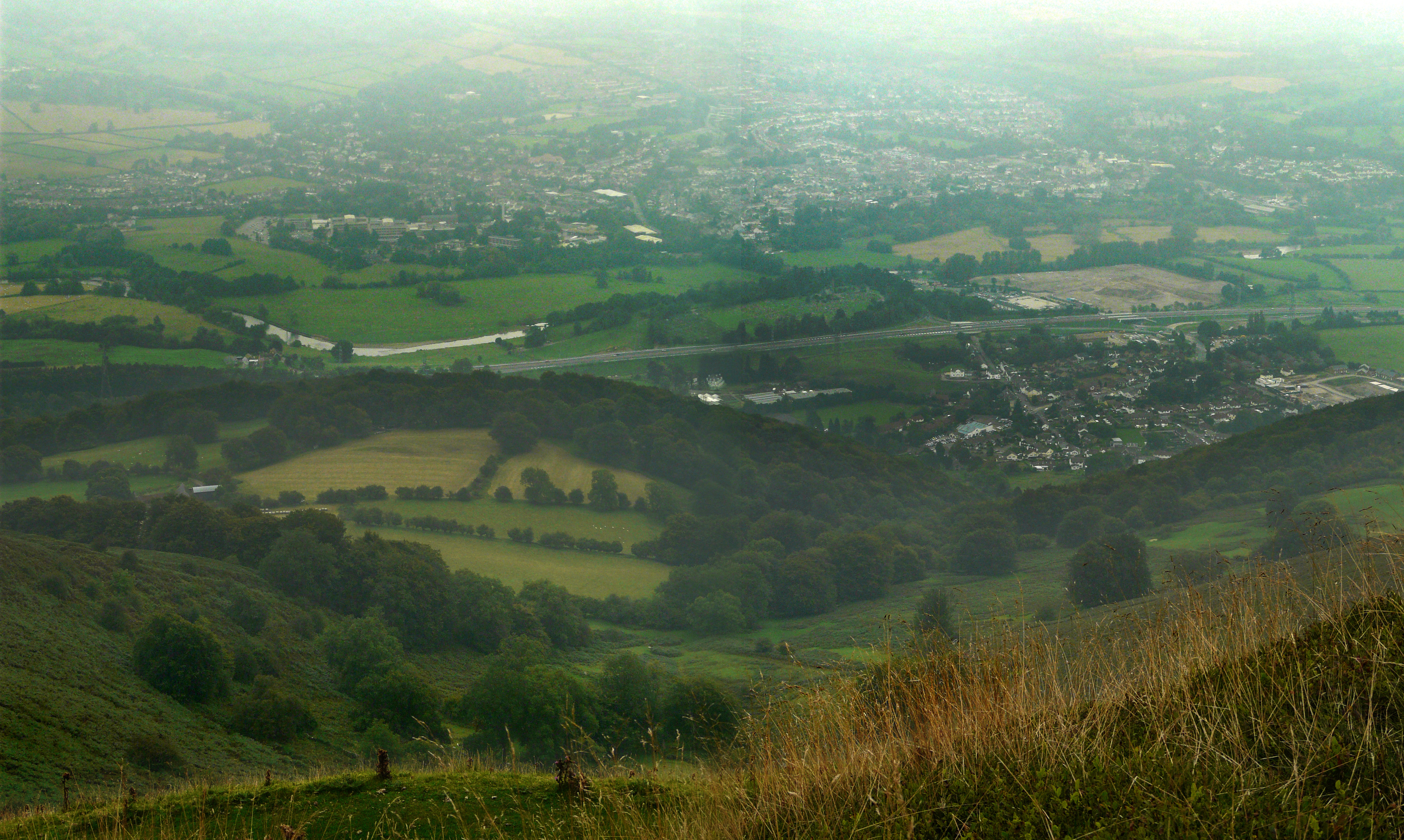 View of Abergavenny from the summit of The Blorenge in the Brecon Beacons. View is approximately northwest. Stitched from two or three sections. Mild HDR processing has been used.